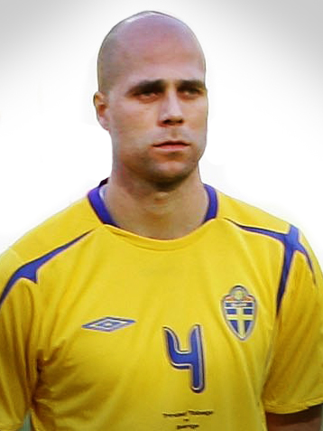 Teddy Lučić, Swedish footballer, during the 2006 World Cup. Cropped from team photo.